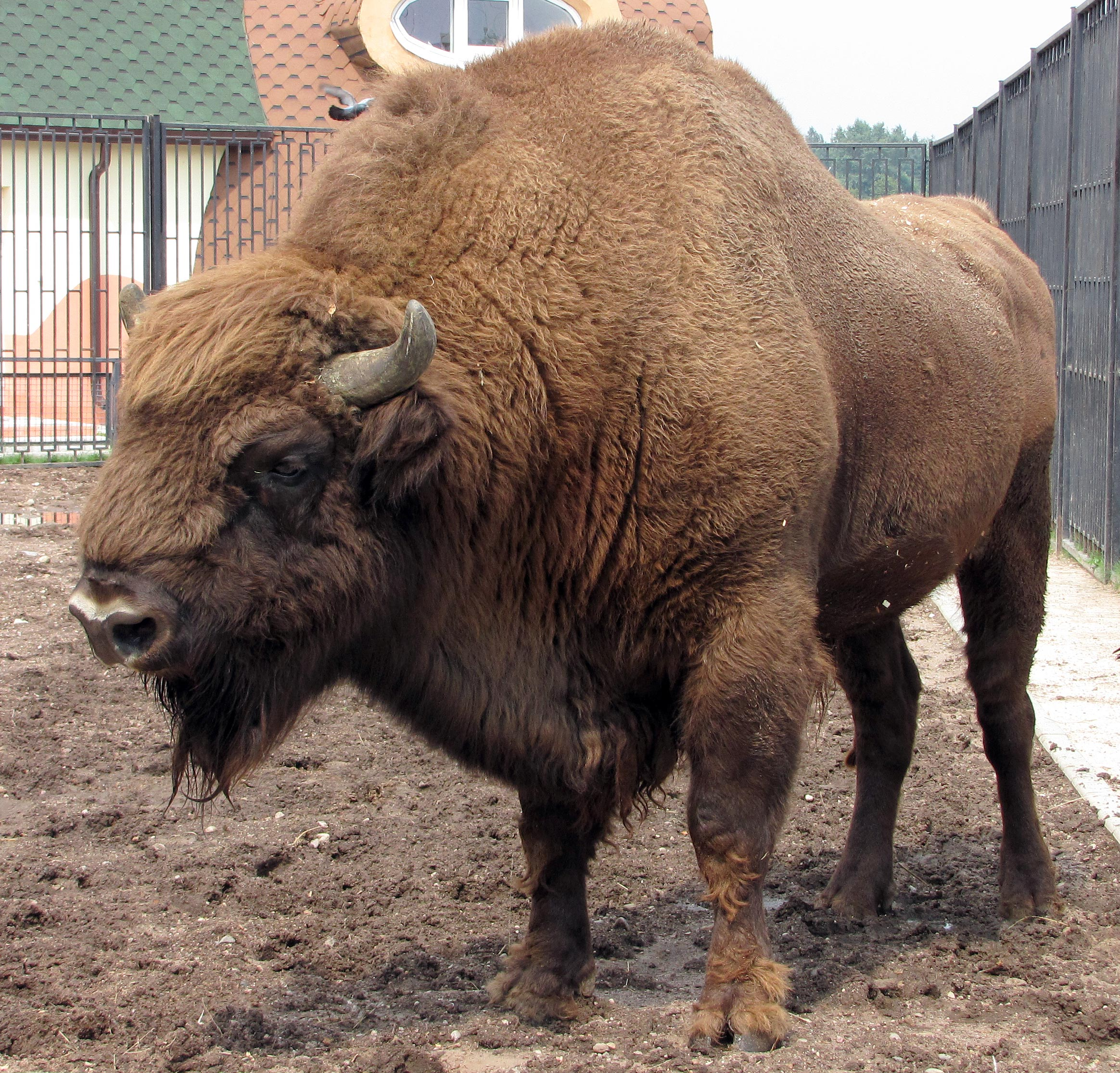 A male zubr (European bison or wisent) at Minsk Zoo, Belarus.